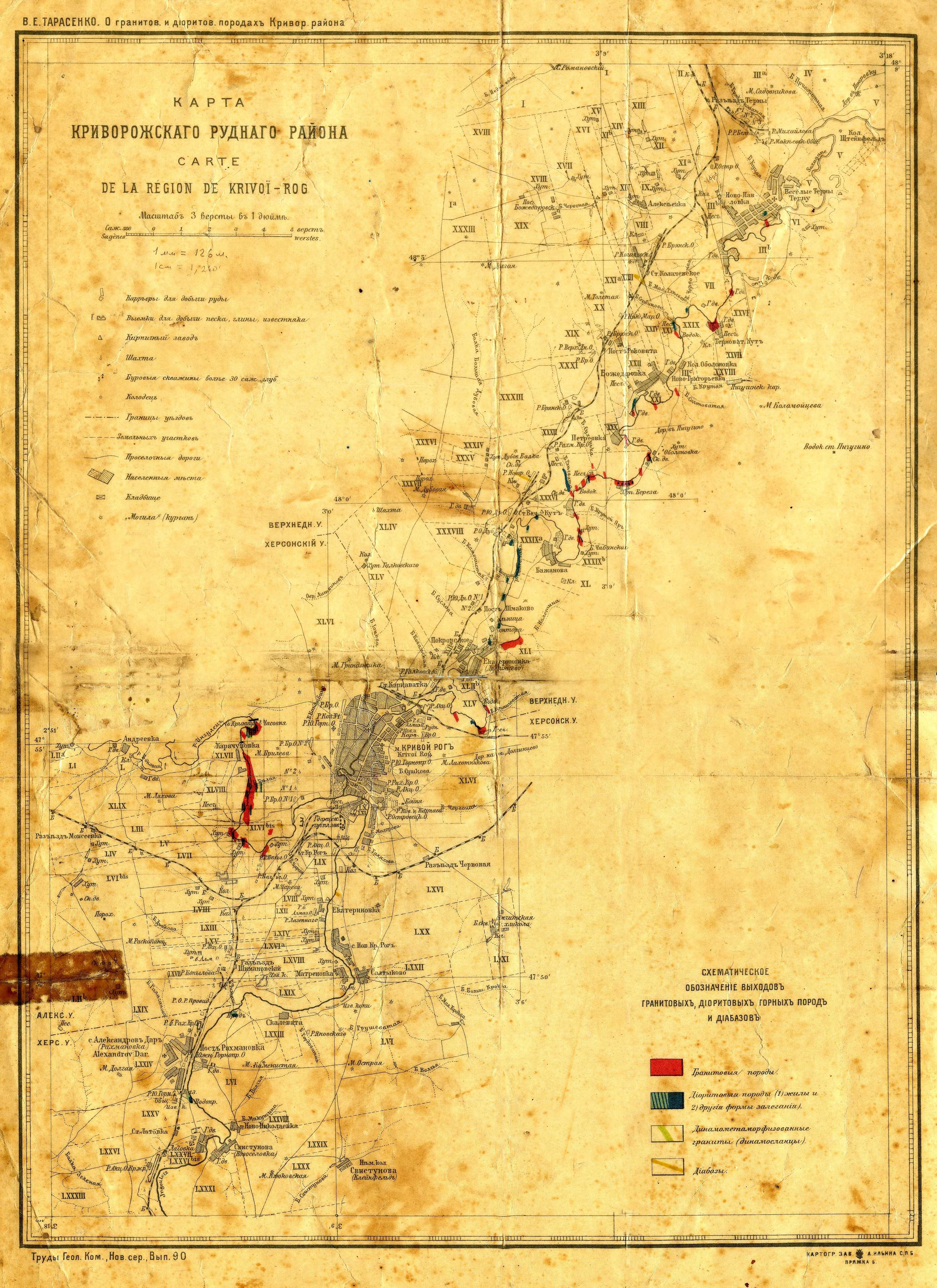 Kryvyi Rih Region Map 1914